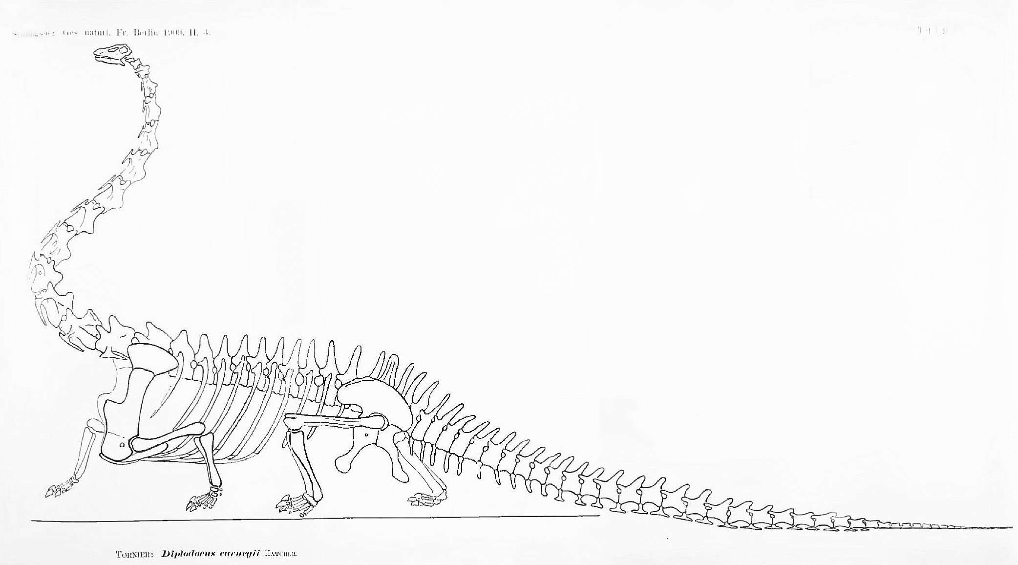 From Tornier, Gustav. 1909. “Wie War Der Diplodocus Carnegii Wirklich Gebaut?” Sitzungsberichte Der Gesellschaft Naturforschender Freunde Zu Berlin 1909 (4): 193–209.